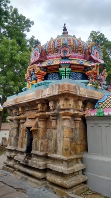 Melacauvery kailasanathar temple மேலக்காவேரி வரதராஜப்பெருமாள்கோயில்